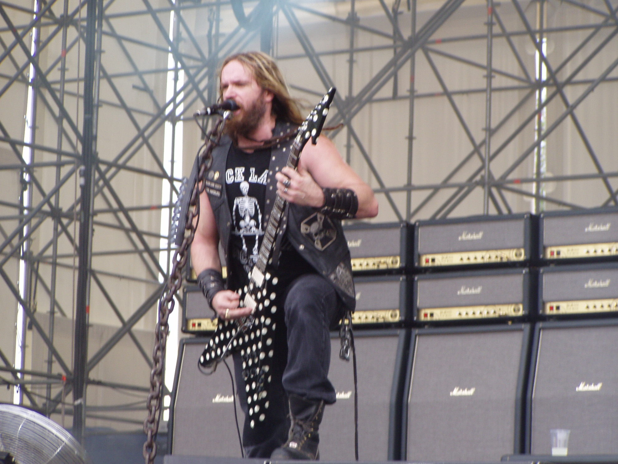 I Black Label Society al Gods of Metal